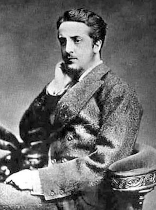 John Tunstall in seated pose, photographer unknown, image is in the Public Domain and not subject to copyright law. Image has been retouched, cropped.